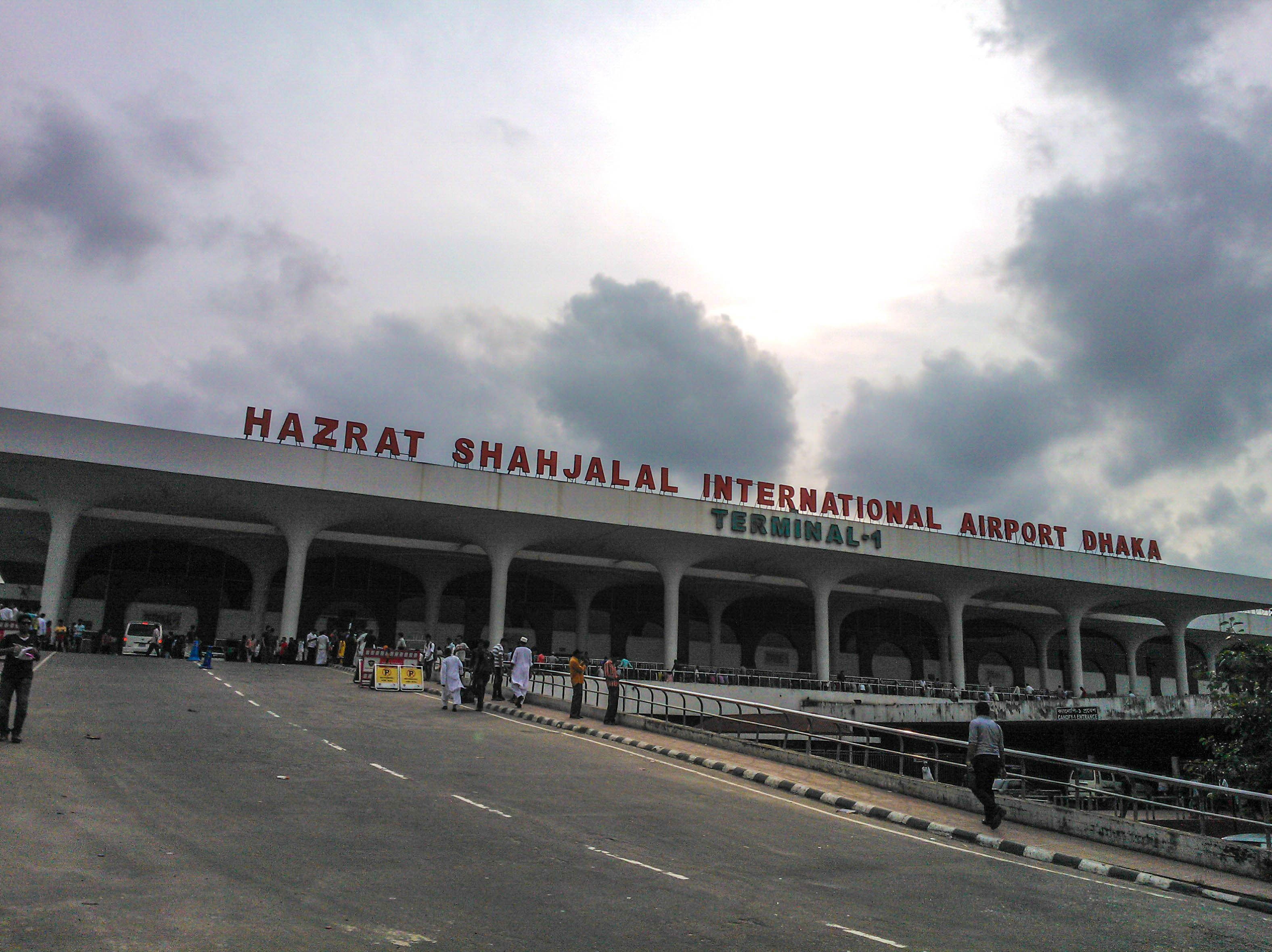 Shahjalal International Airport, Dhaka.